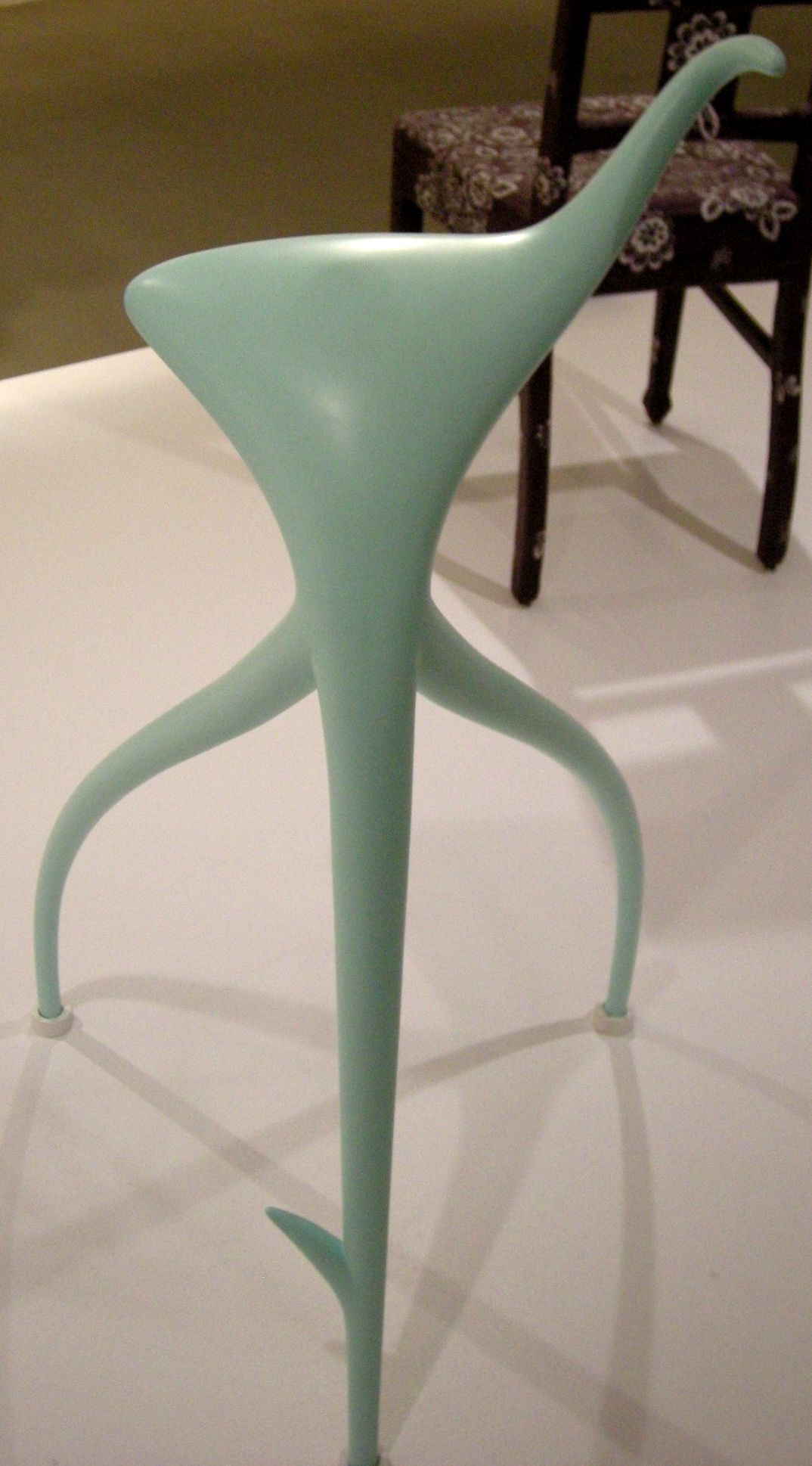 Ngv design, philippe starck, w.w. stool, 1990